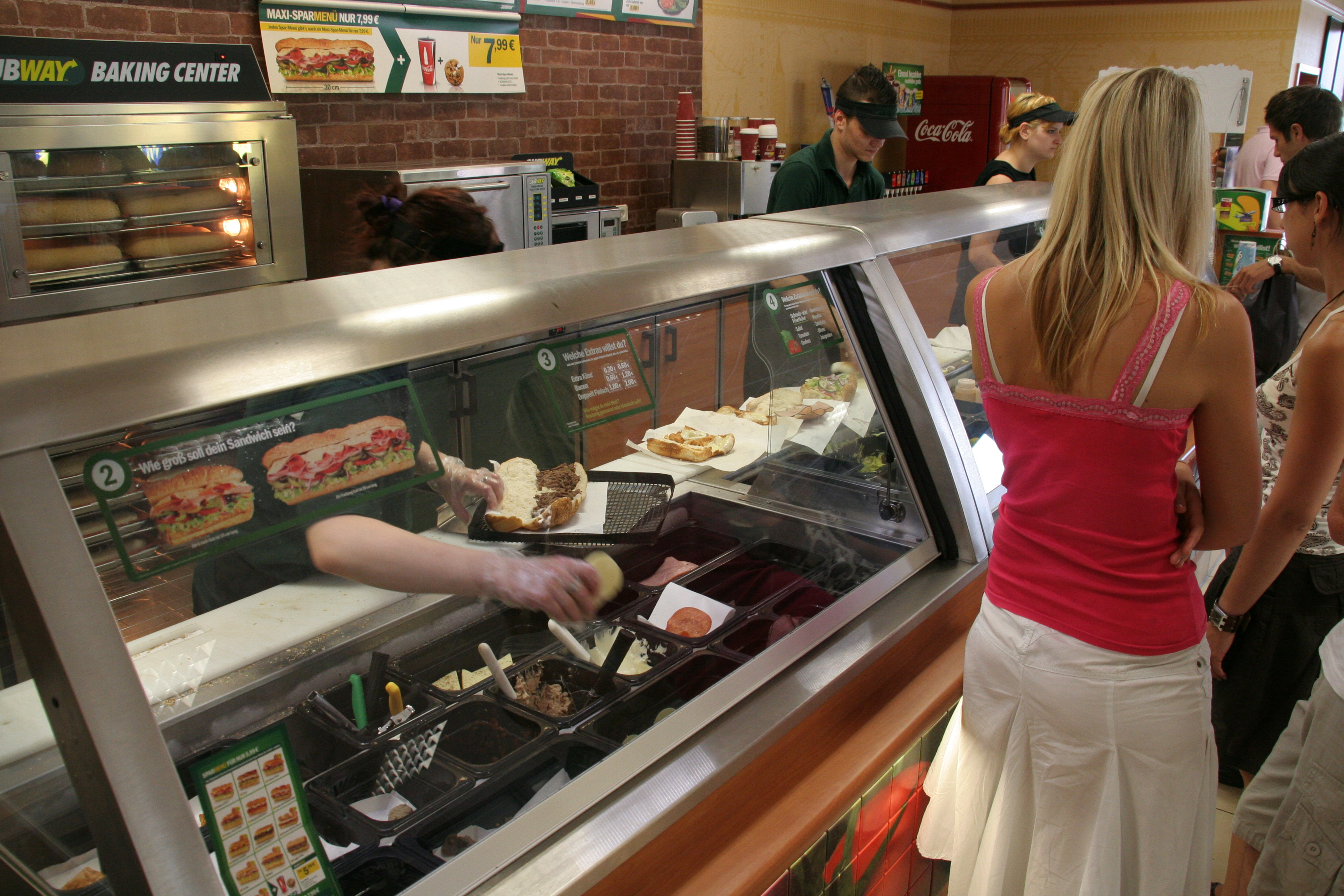 Desk of Subway Restaurant in Karlsruhe, Germany.